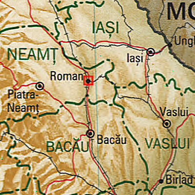 Map of Roman Municipality, Romania.